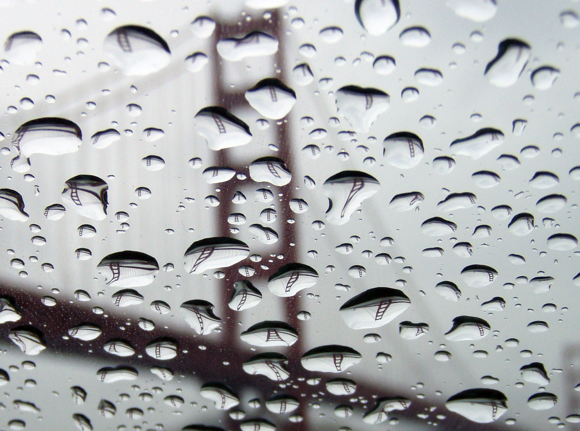 The Golden Gate Bridge refracted in rain drops acting as lenses.